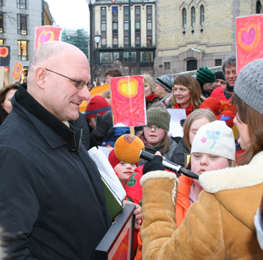 Olav Gunner Ballo gets a picture